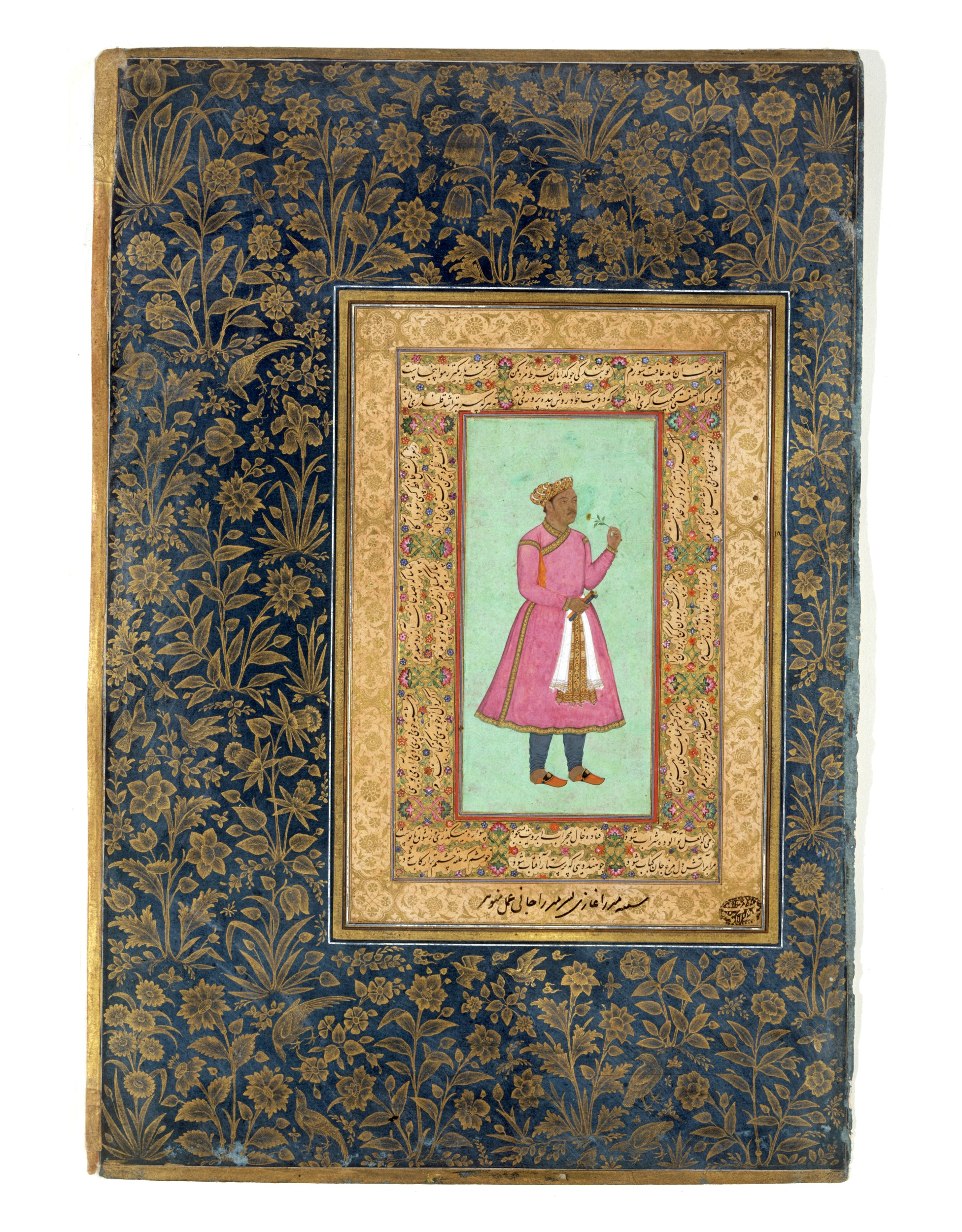 Date c.1610-1612 (Made) Artist/maker Manohar (Painter) Marks and inscriptions shabih-e Mirzi Ghazi pesar-e Mirza Jani amal-e manohar Likeness of Mirzi Ghazi, the son of Mirza Jani, the work of Manohar Dimensions Height: 13.5 cm portrait only, excluding all framing borders, Width: 6.4 cm painting only, excluding all framing borders, Height: 38.8 cm page, Width: 26.1 cm page Object history note Bequeathed by Mary, Lady Wantage Bibliographic References (Citation, Note/Abstract, NAL no) Susan Stronge, Painting for the Mughal emperor. The art of the book 1560-1650, V&A Publications, London 2002, plate 88, page 123. Collection code IND